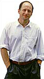 Rick Bass is a writer who lives with his family in northwestern Montana's Yaak Valley. The valley has been described as a "Noah's Ark of Diversity," with mountain lions, moose, elk, bobcats, grizzly and black bears, lynx and wolverines. Almost all of the Yaak Valley is in the Kootenai National Forest. Rick works with his neighbors on the Yaak Valley Forest Council to support a local and sustainable forest-based economy, and to help protect the last roadless areas on the public wildland in northwestern Montana. NPS Photo.